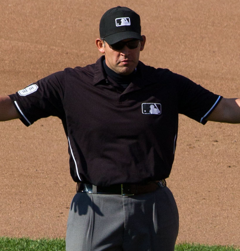 MLB umpire Manny Gonzalez – Boston Red Sox at Baltimore Orioles September 30, 2012